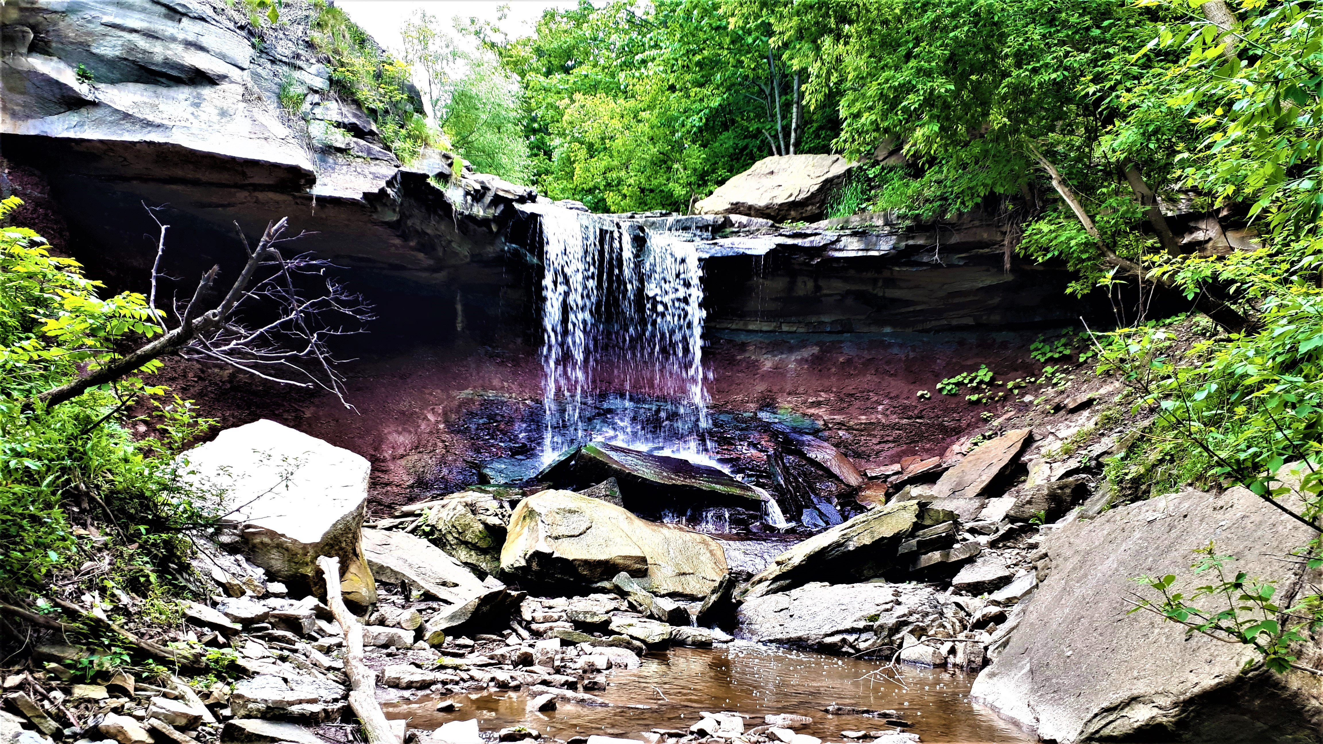 Devils Pouch Bowl Conservation Area- Lower Falls- Stoney Creek-Hamilton-Ontario Lower Punch Bowl Falls is a curtain waterfall, spanning 7 meters in height and width. This photo was taken in a protected area in Canada, Wikidata item Devil's Punchbowl Conservation Area (Q59975703)